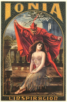 Decorative poster for the stage show "Ionia" - Clémentine de Vère (1888-1973), British-Belgian magician and illusionist performing mainly in Paris.